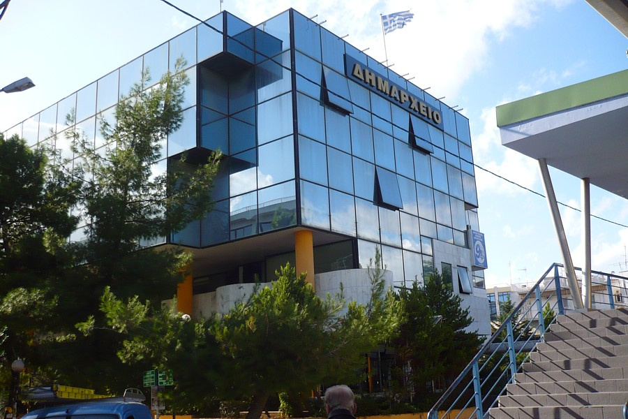 Irakleio municipality hall